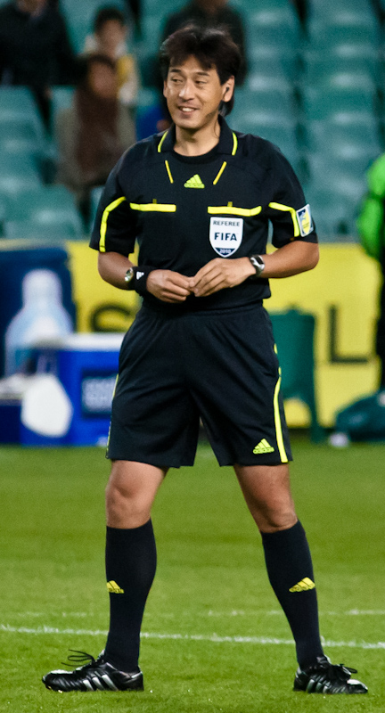 Yuichi Nishimura, the referee in a football game between Australia and Paraguay in Sydney, Australia.